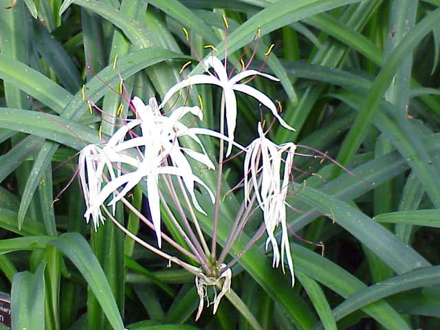 Species: Crinum purpurascens Family: Amaryllidaceae Image No. 1